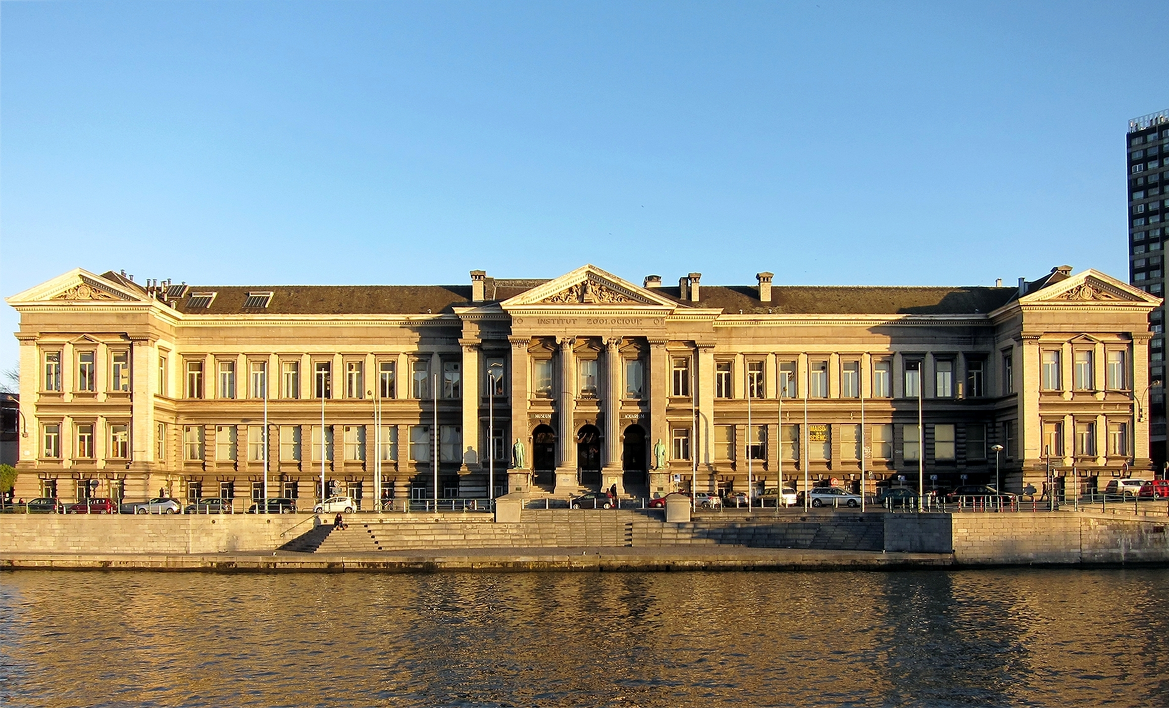 Zoological Institute of Liège.